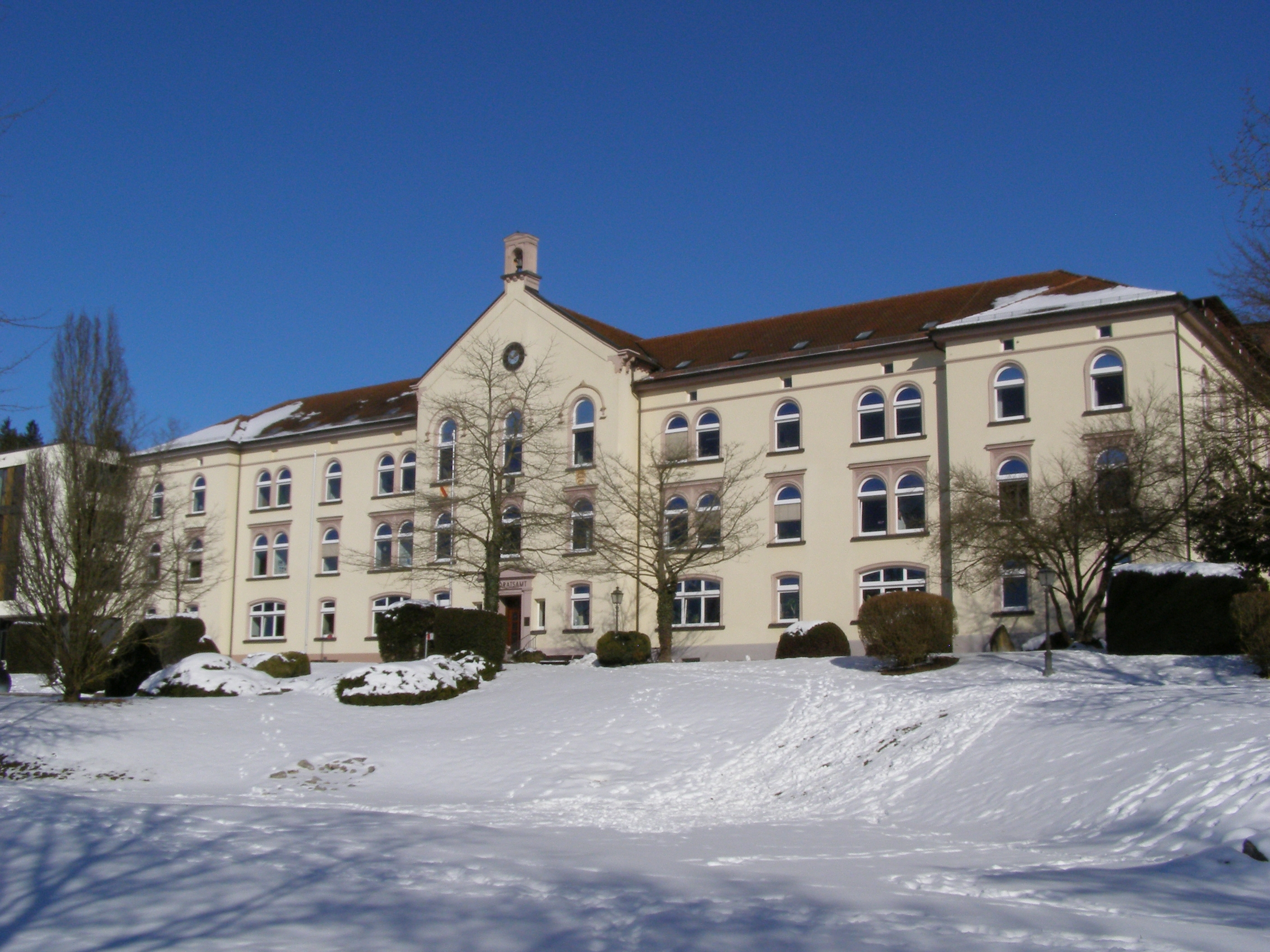 Sigmaringen - district administration office (Landratsamt)